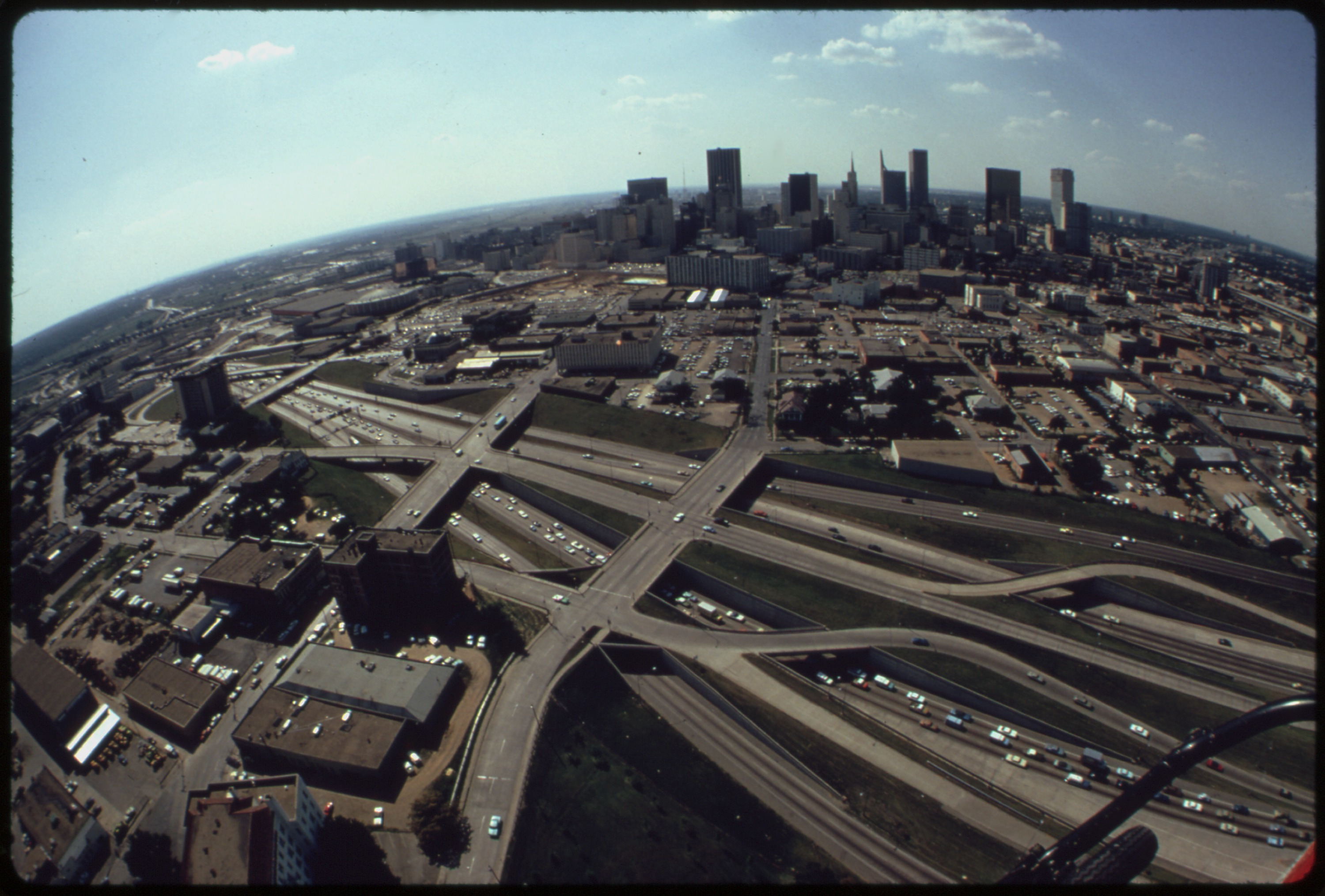 Scope and content: Original caption: Central Expressway.